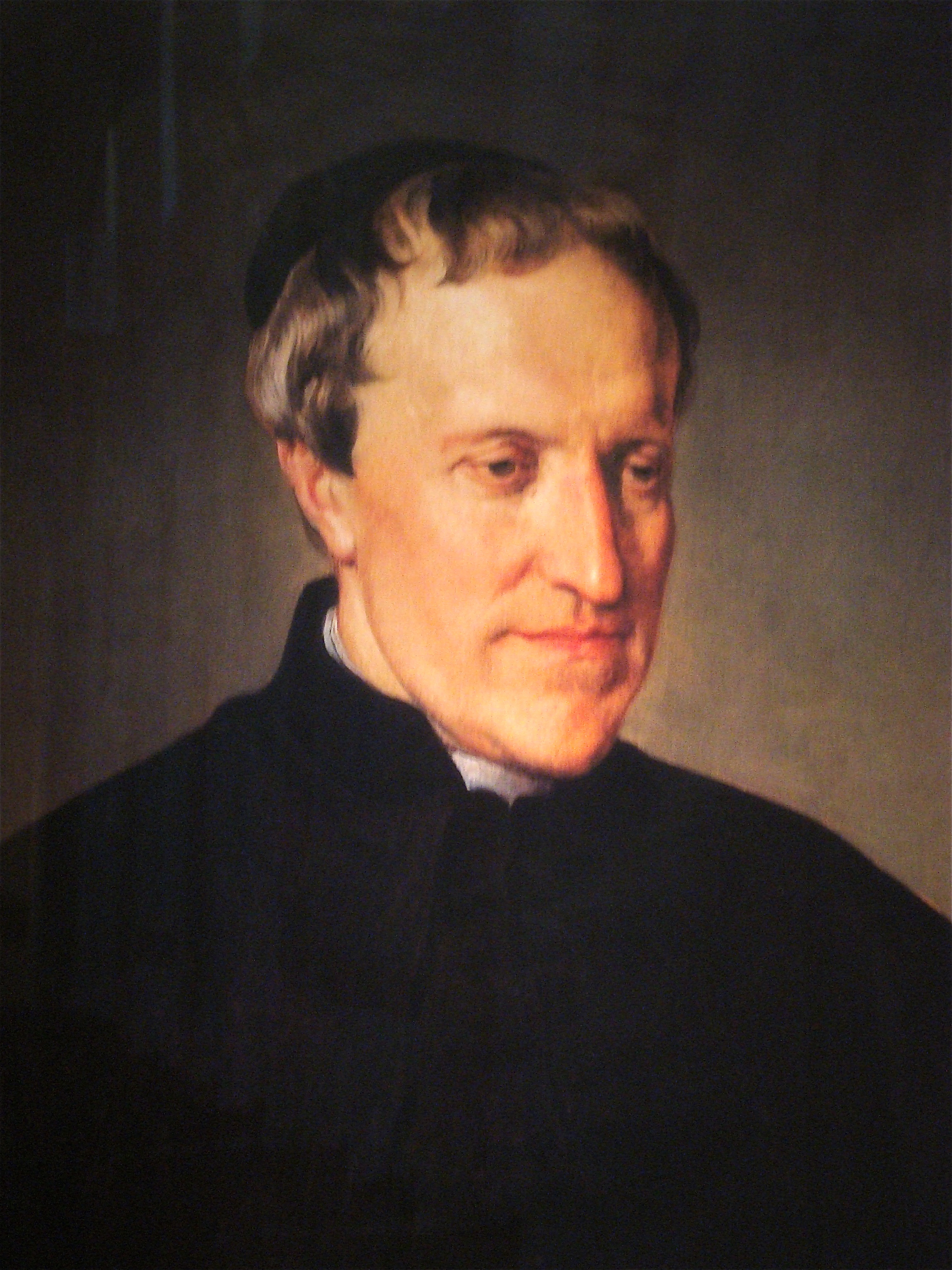 Portrait of Antonio Rosmini (1797-1855)